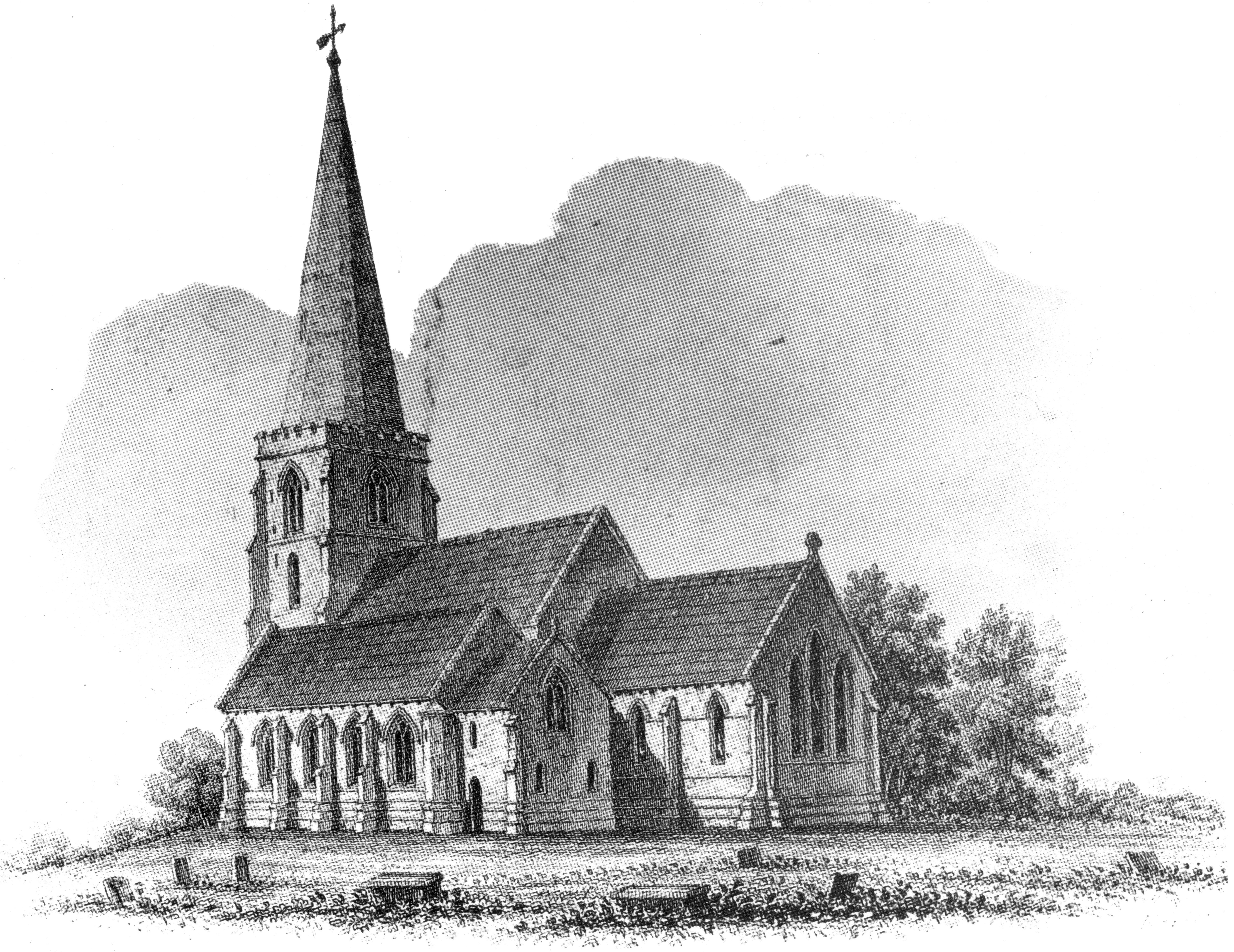 An engraving of St Michael on Greenhill, Lichfield, Staffordshire, done in 1845 after its restoration. The engraver is unknown and may have been the architect Thomas Johnson to show the church in its restored condition. The engraving was printed and published by Thomas George Lomax.